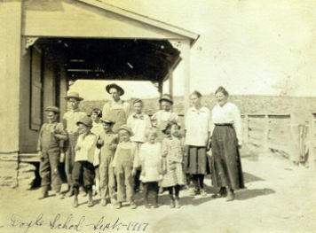 Doyle School of the Doyle Settlement in Pueblo County, Colorado, United States.